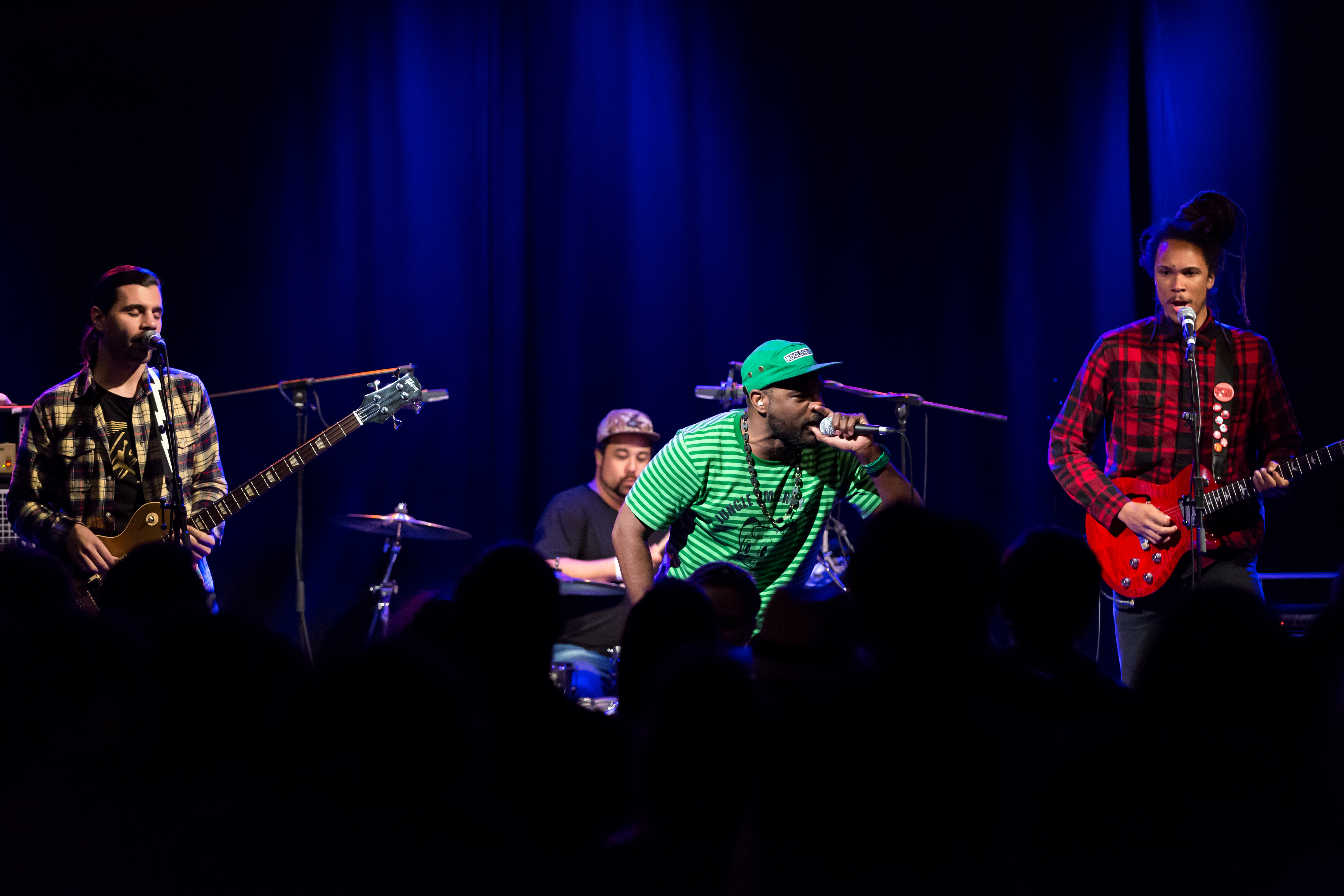 RDGLDGRN, concert at Waves Vienna 2015 (Vienna, Austria).